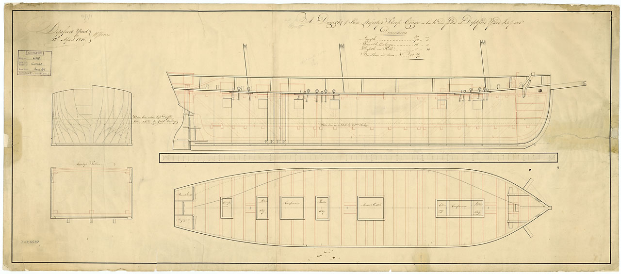 CONGO 1816 lines & profile